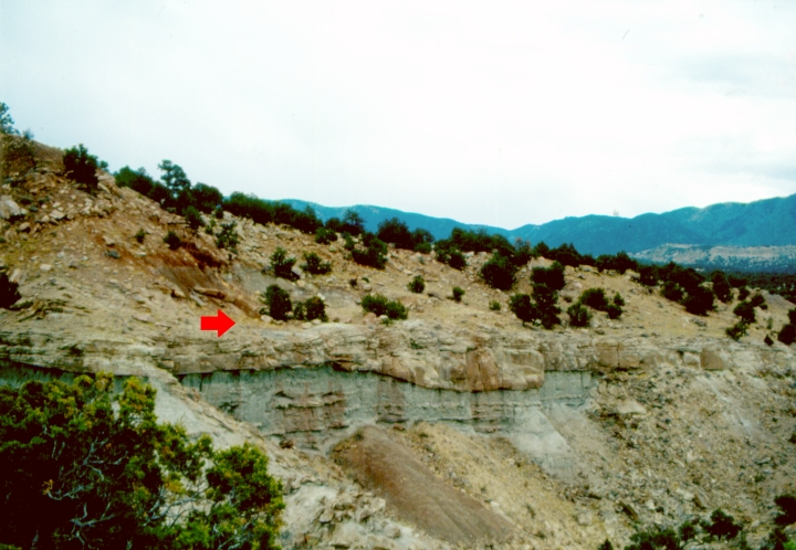 Felch Quarry 1 (Marsh-Felch Quarry) from where Marshall P. Felch excavated numerous dinosaurs for O.C. Marsh during the late 1800s.